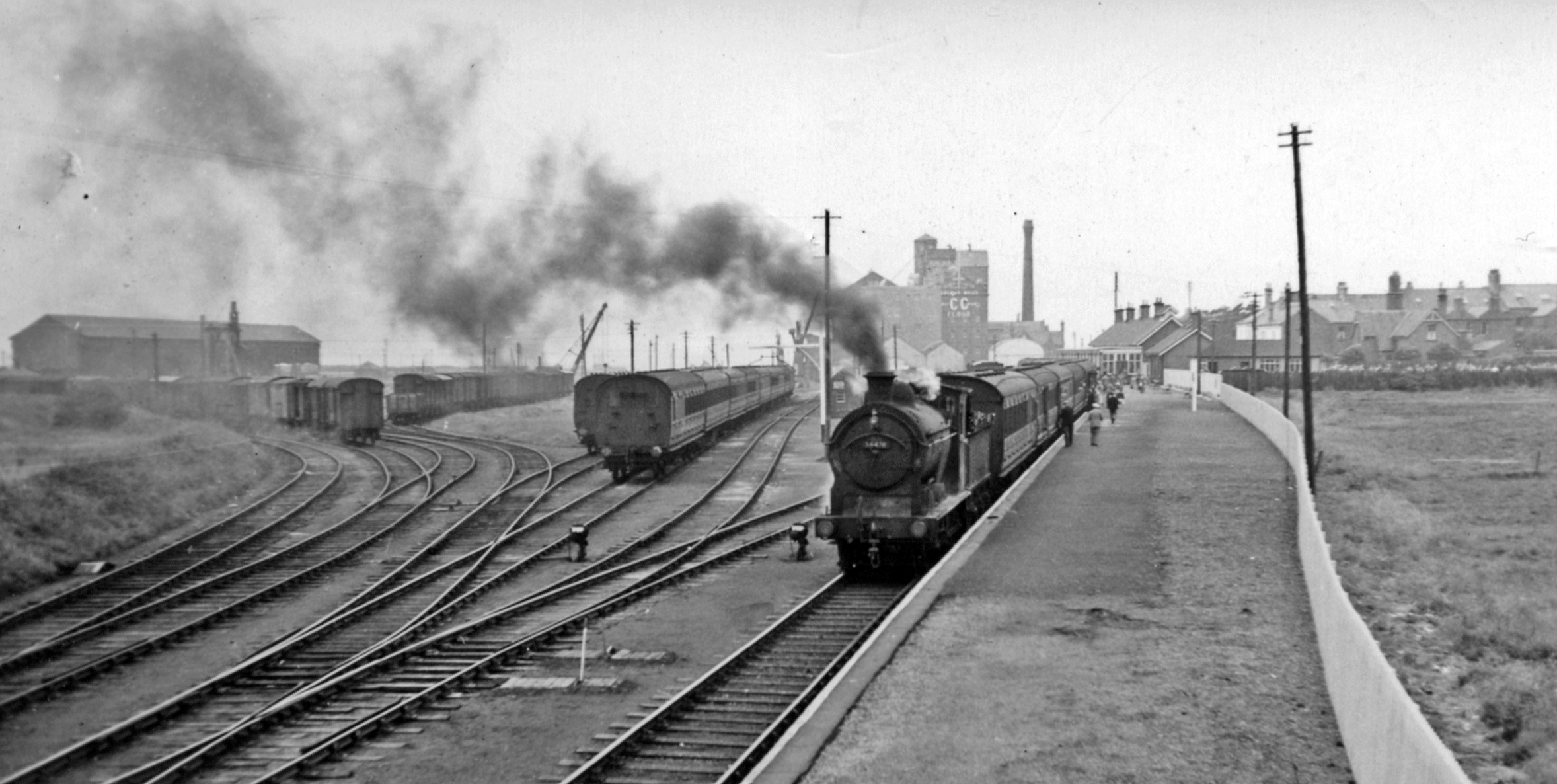 Silloth station, 1951View westward to buffer-stops of ex-NBR line from Carlisle. Ex-NBR Reed class J35 0-6-0 No. 64478 (built 12/1908, LNER 9191, withdrawn 8/62) is on the 14.20 to Carlisle.